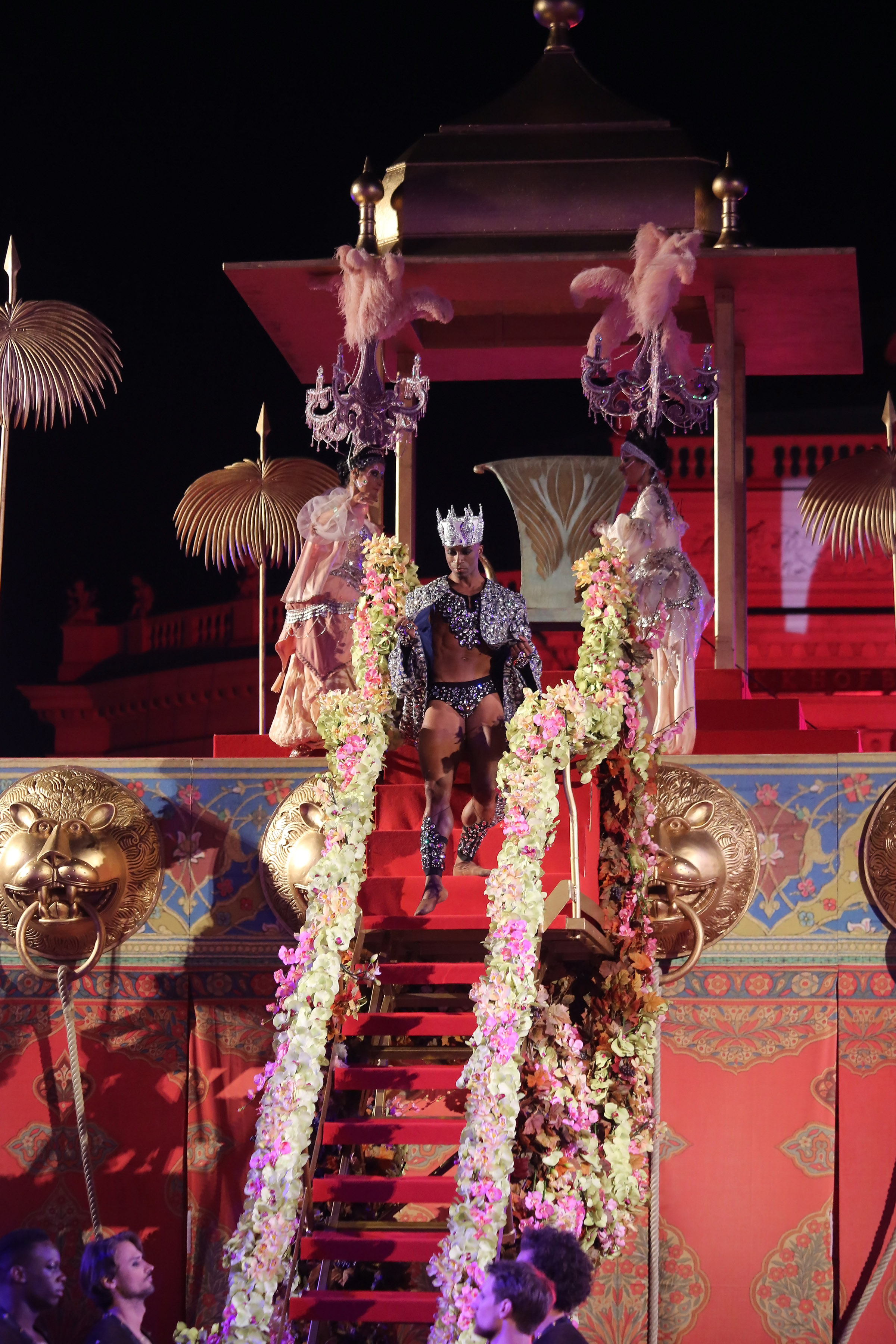 Desmond Richardson and the "Opera Twins" Sidem and Didem Balık, opening show of Life Ball 2013 at the city hall of Vienna, Vienna, Austria.